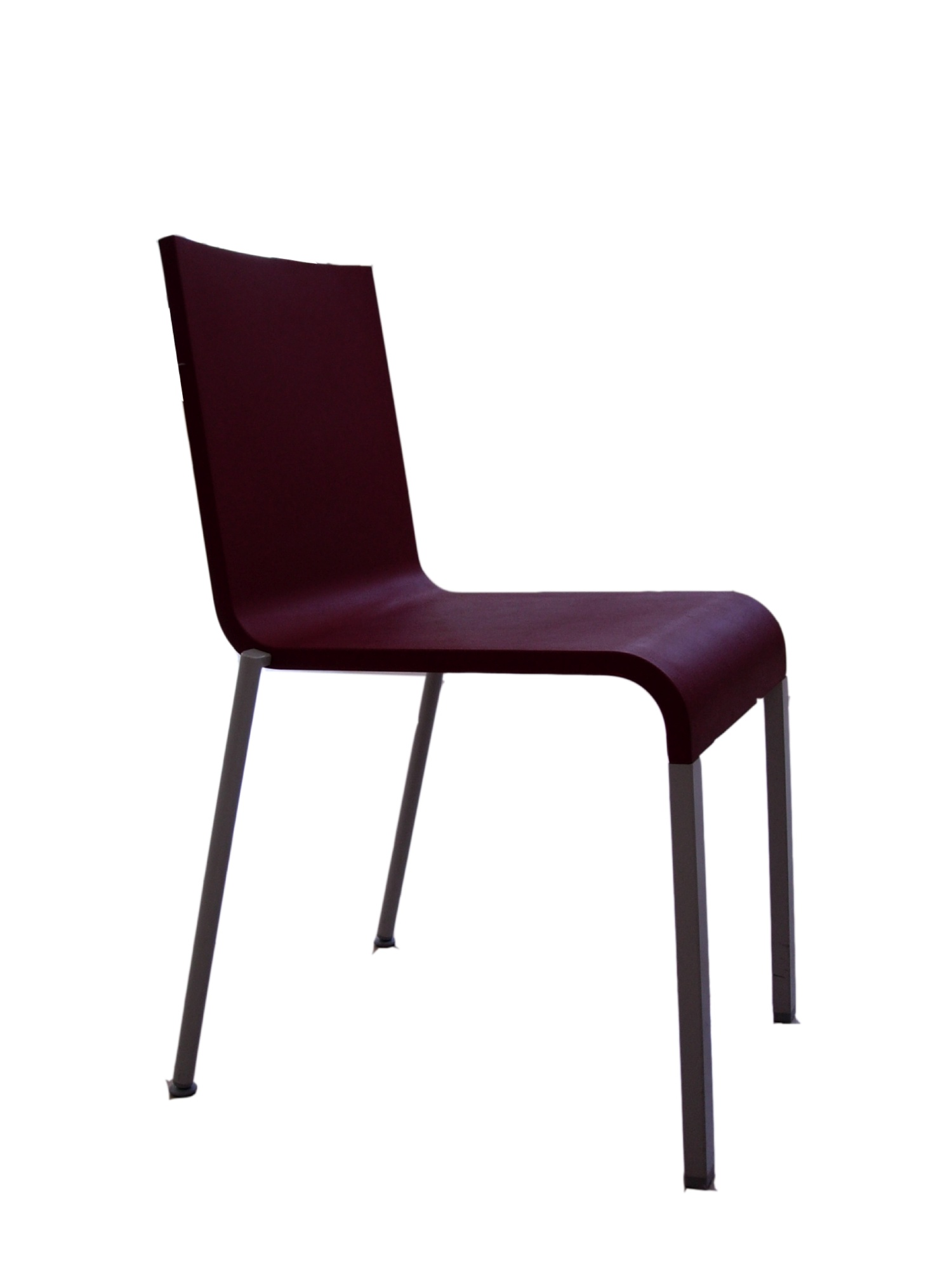 Cutout from a picture of a Vitra .03 chair, designed by Maarten Van Severen, taken in the Flemish Parliament in Brussels.